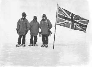 Adams, Wild and Marshall at Furthest South, 9 January 1909, photographed by Ernest Shackleton